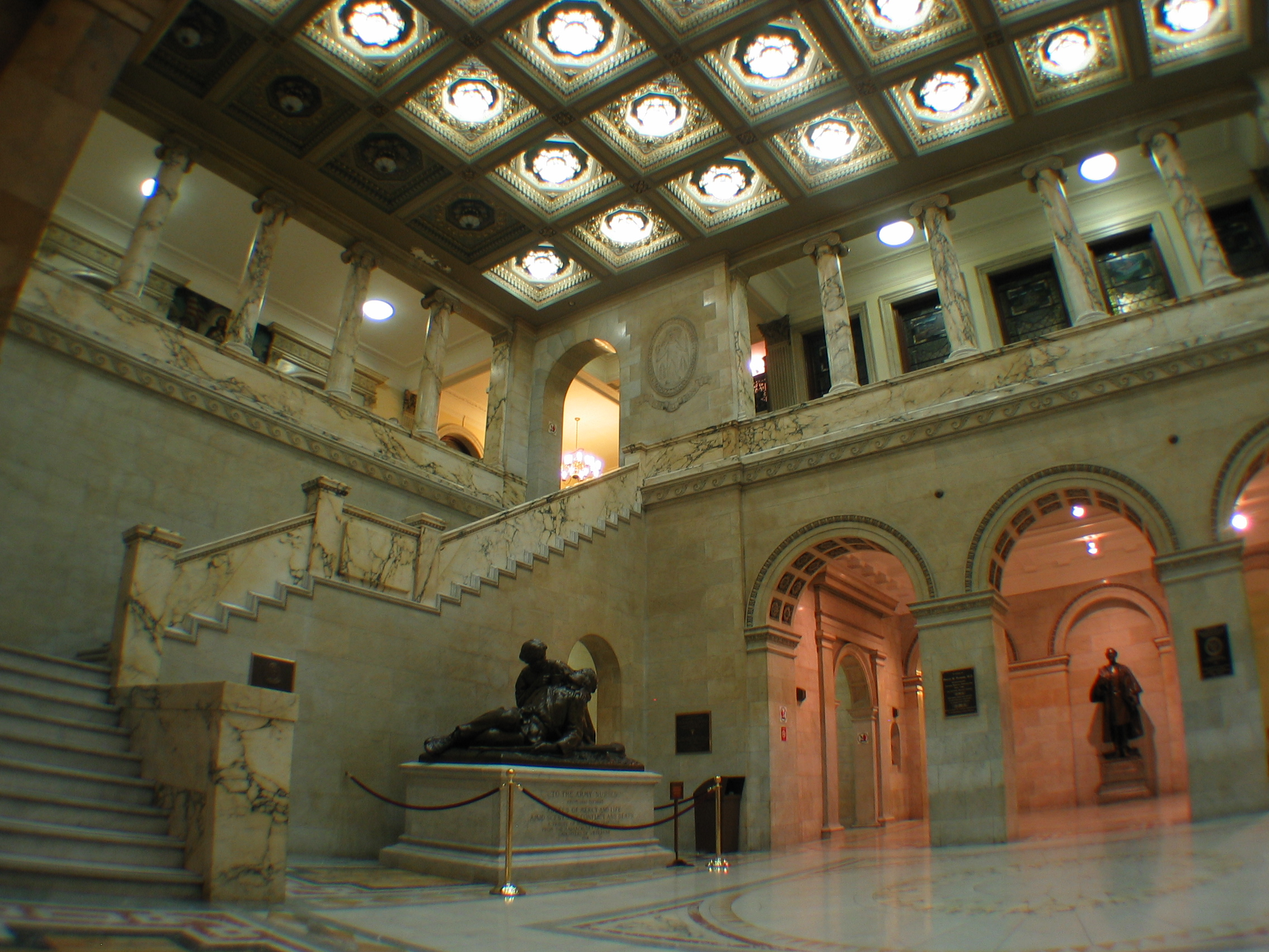 Nurses Hall, Massachusetts State House, Boston, MA, USA